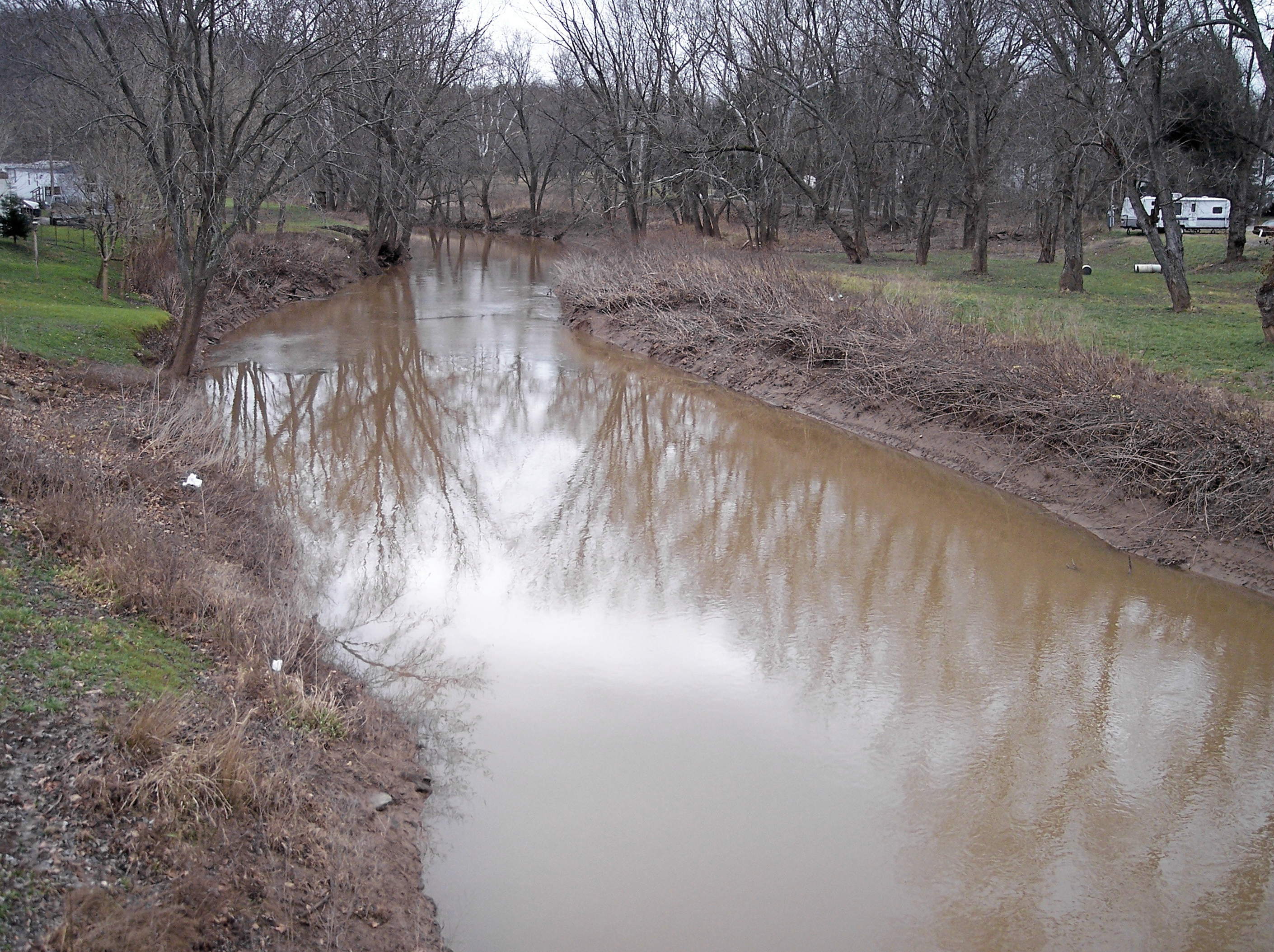 Mill Creek as viewed from West Main Street (U.S. Route 33) in Ripley, West Virginia